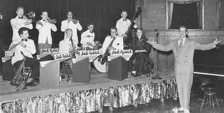 Photograph of the Jack Melick Orchestra taken in 1949 at Oberlin College (Ohio)